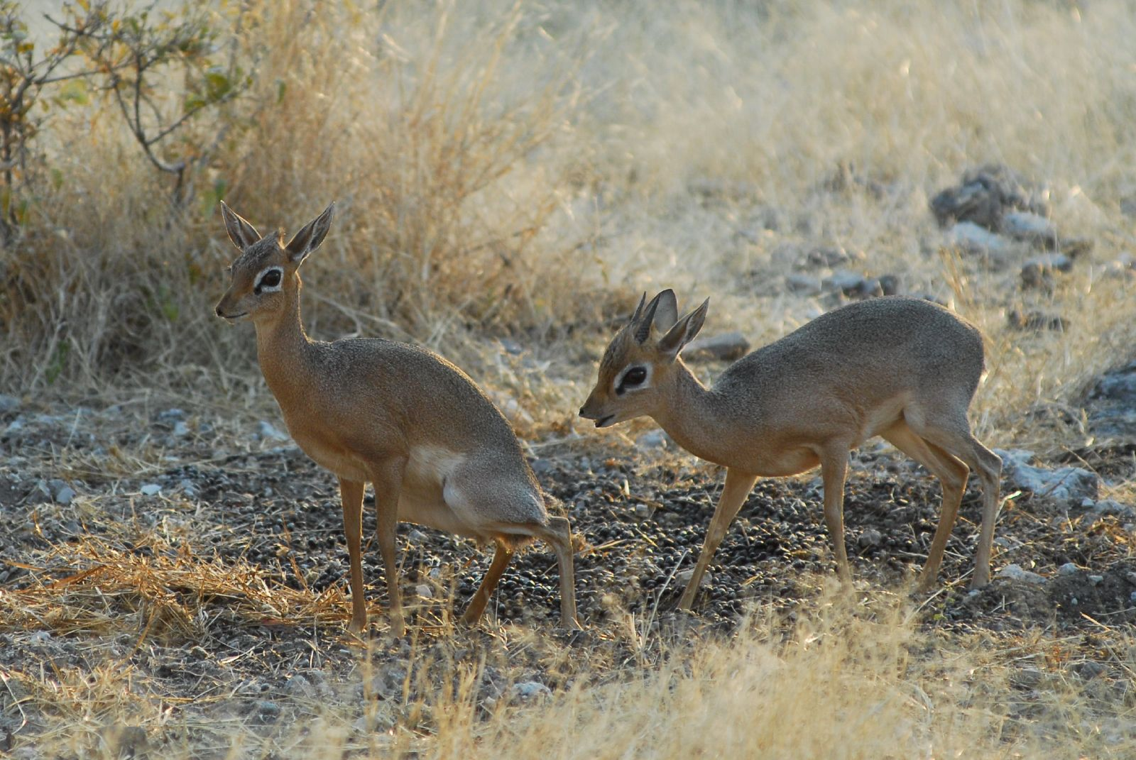 Kirk's Dik-dik, Madoqua kirki, Etoscha National park, Namibia